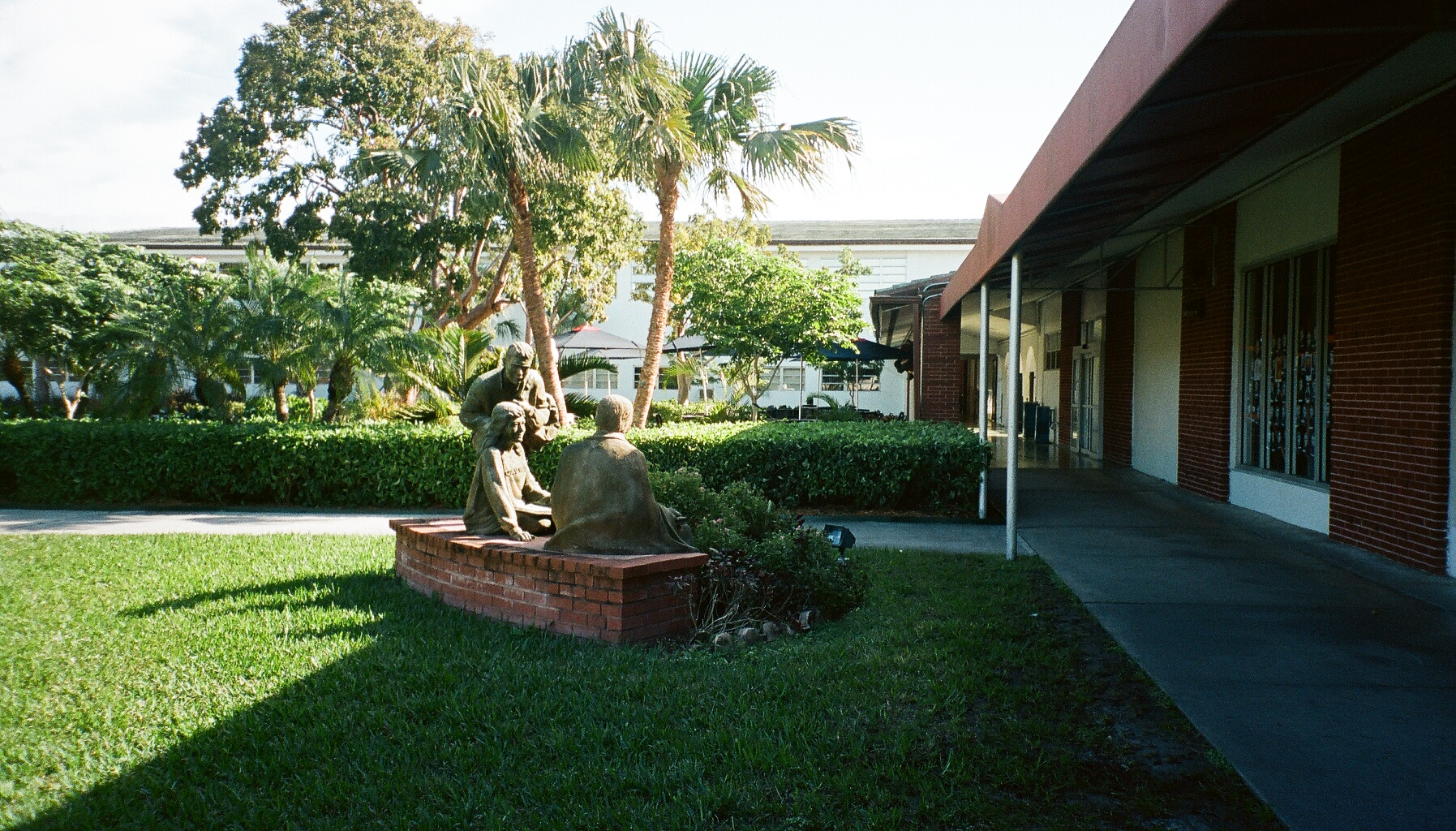 Exterior of Christopher Columbus High School cafeteria